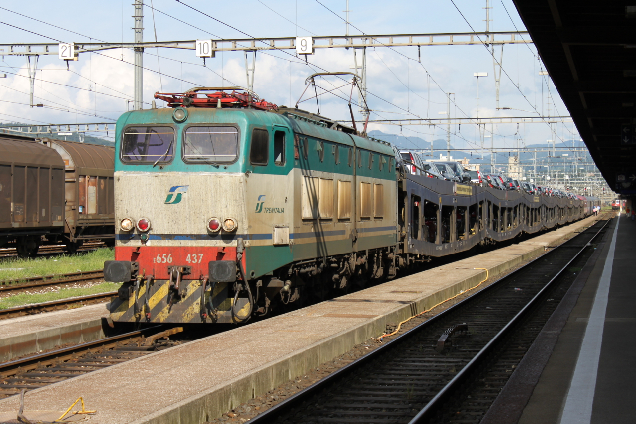 FS E 656 437 ahead of an "Autoslaap"-service from the Netherlands to Italy at Chiasso.